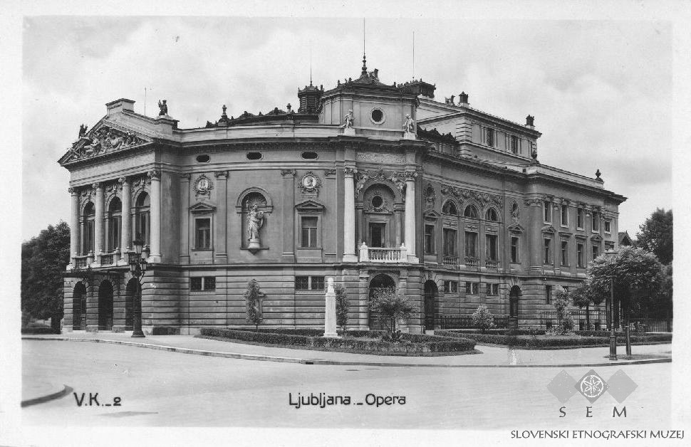 Postcard of Ljubljana, Slovene National Opera and Ballet Theatre